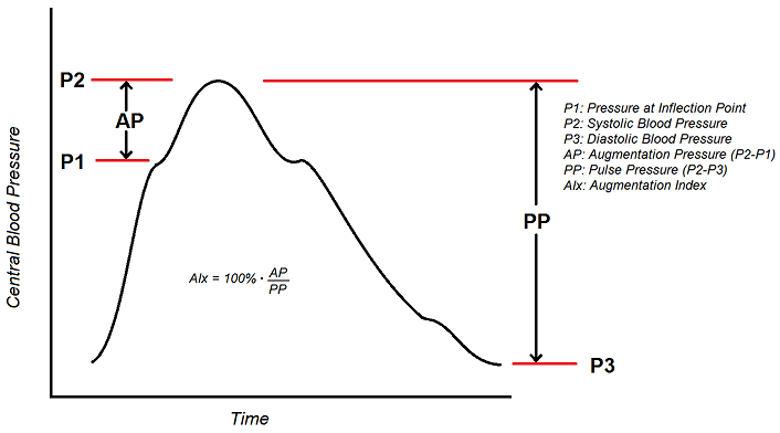 Determination of the augmentation index from the central pressure wave form.